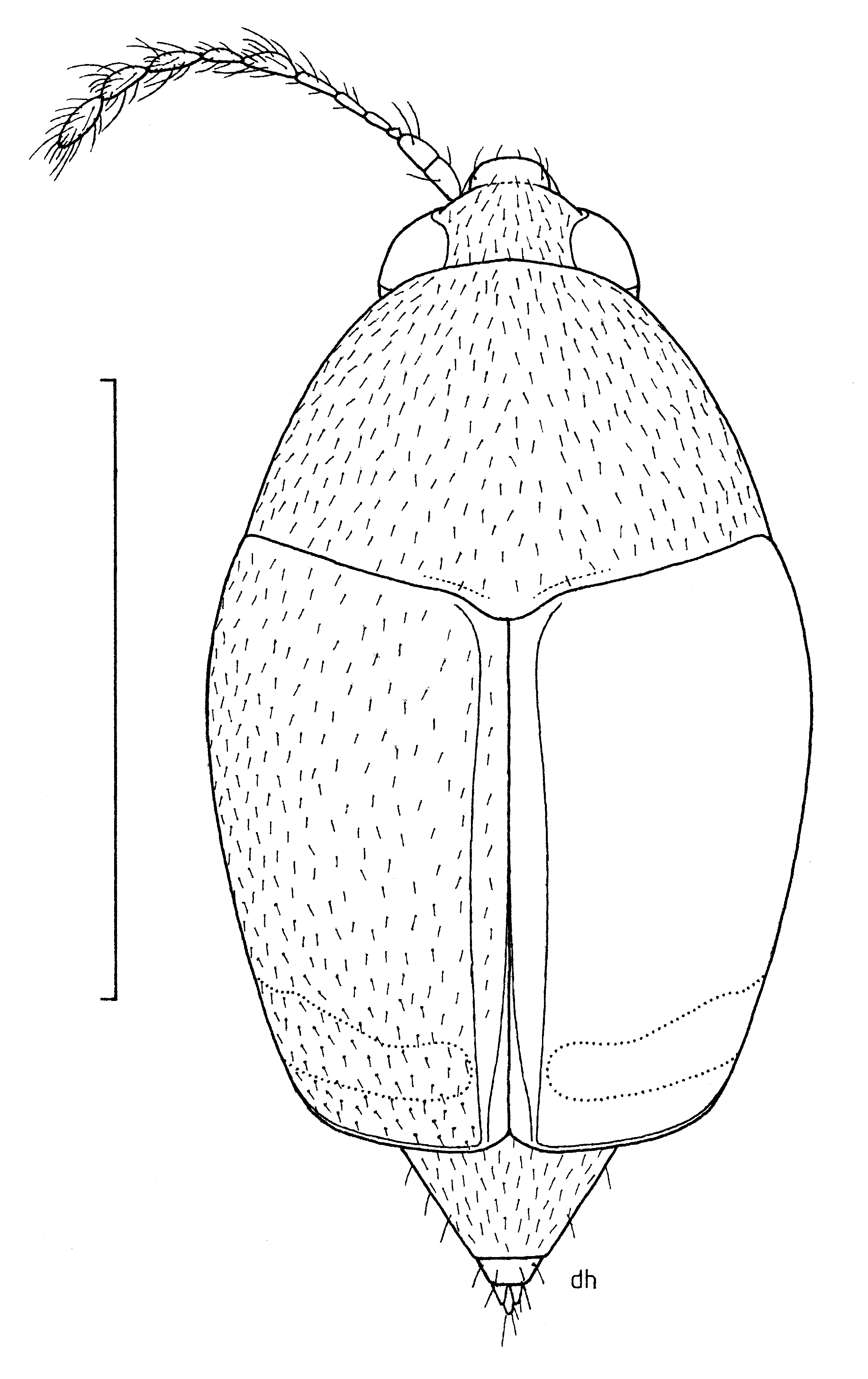 (Coleoptera: Staphylinidae) Scaphisoma funereum illustrated by Des Helmore.